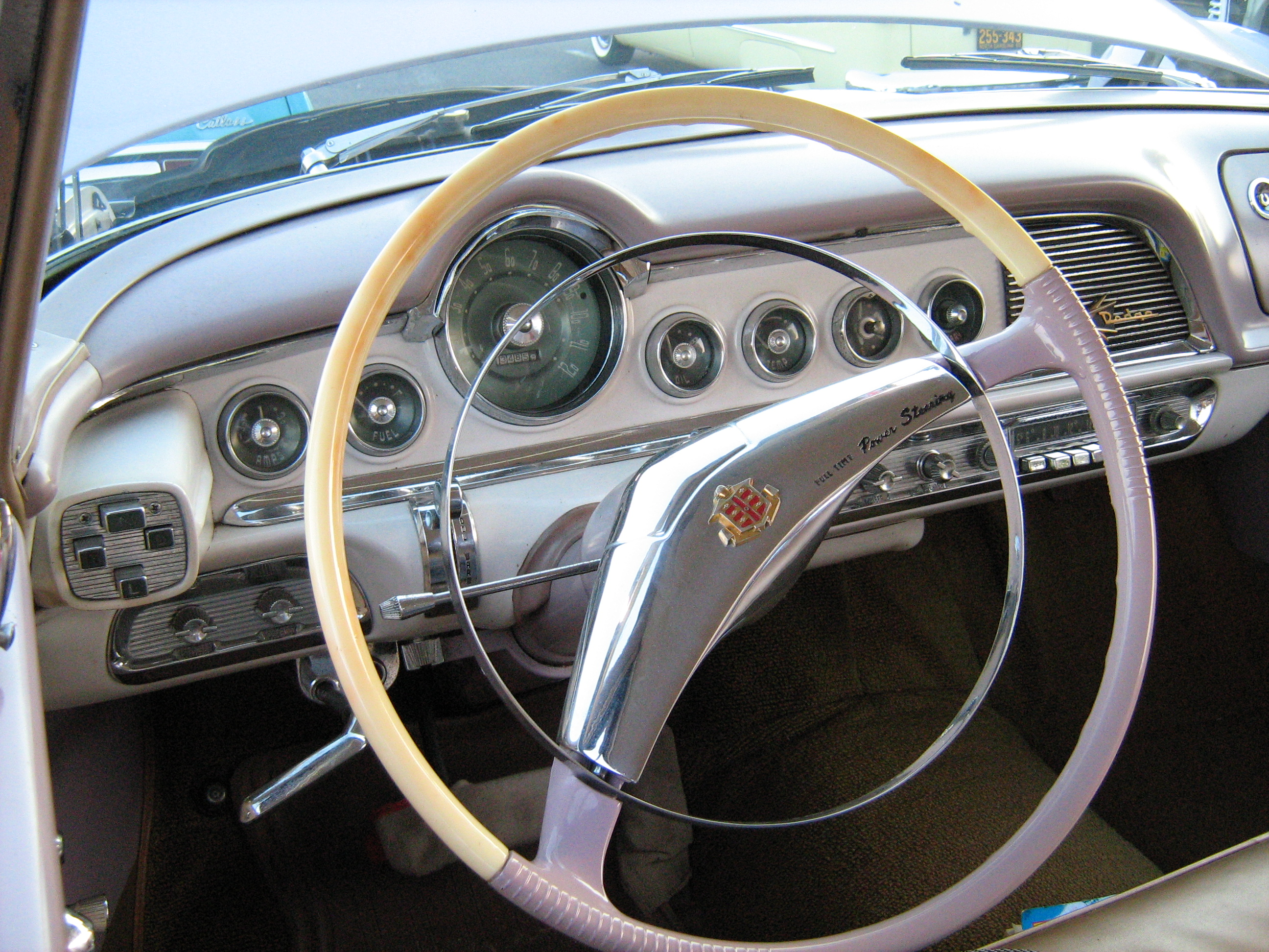 1956 Dodge La Femme - dashboard.